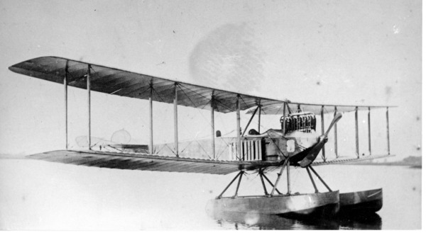 PictionID:43640054 - Catalog:16_004778 - Title:Hansa-Brandenburg W Nowarra photo - Filename:16_004778.TIF - - - - - Image from the Ray Wagner Collection. Ray Wagner was Archivist at the San Diego Air and Space Museum for several years and is an author of several books on aviation --- ---Please Tag these images so that the information can be permanently stored with the digital file.---Repository: San Diego Air and Space Museum